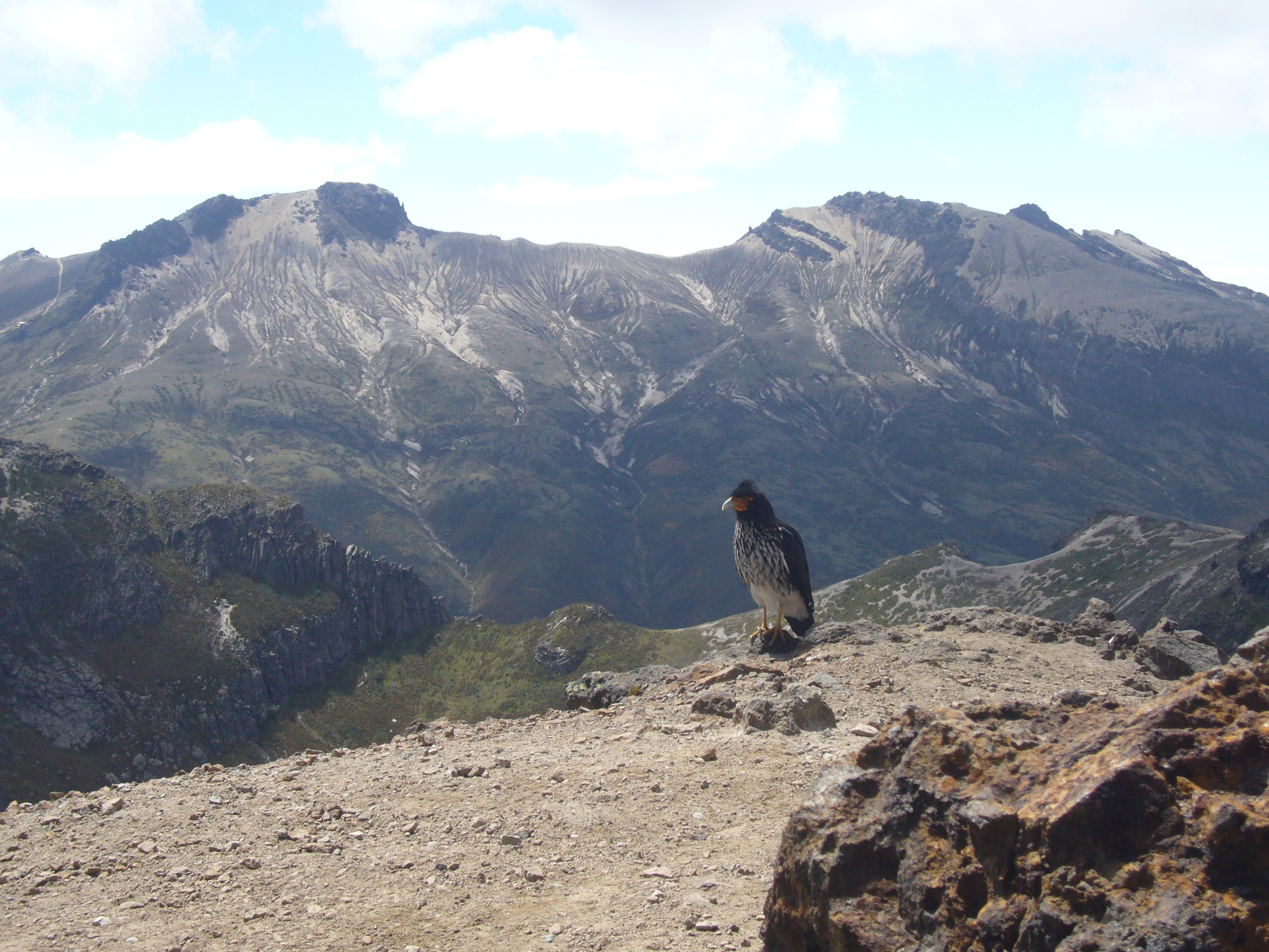 Carunculated Caracara on top of Rucu Pichincha, while Guagua Pichincha can be seen in the background